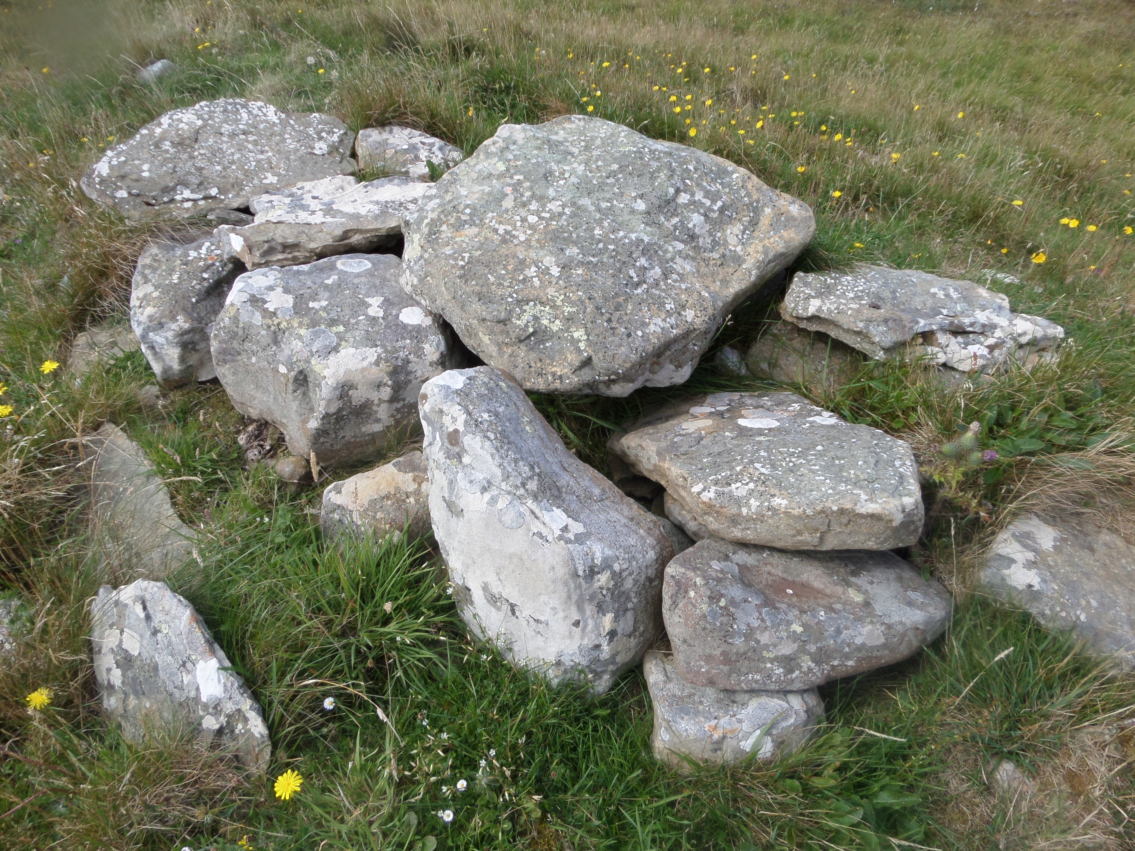 Cist at Cnoc Freiceadain Long Cairns.